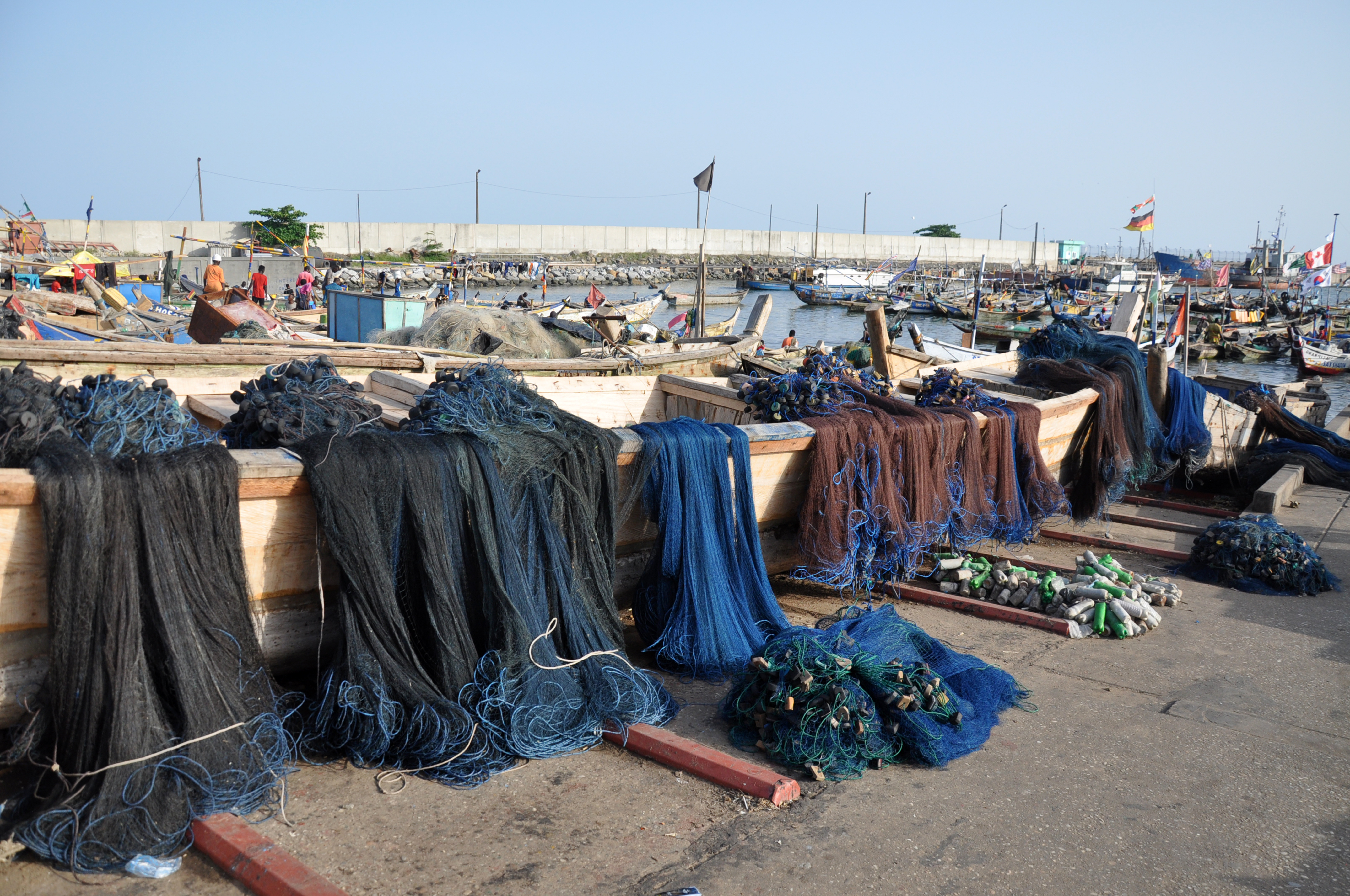 sworn enemy nets of fish This is an image with the theme "Africa on the Move or Transport" from: Benin